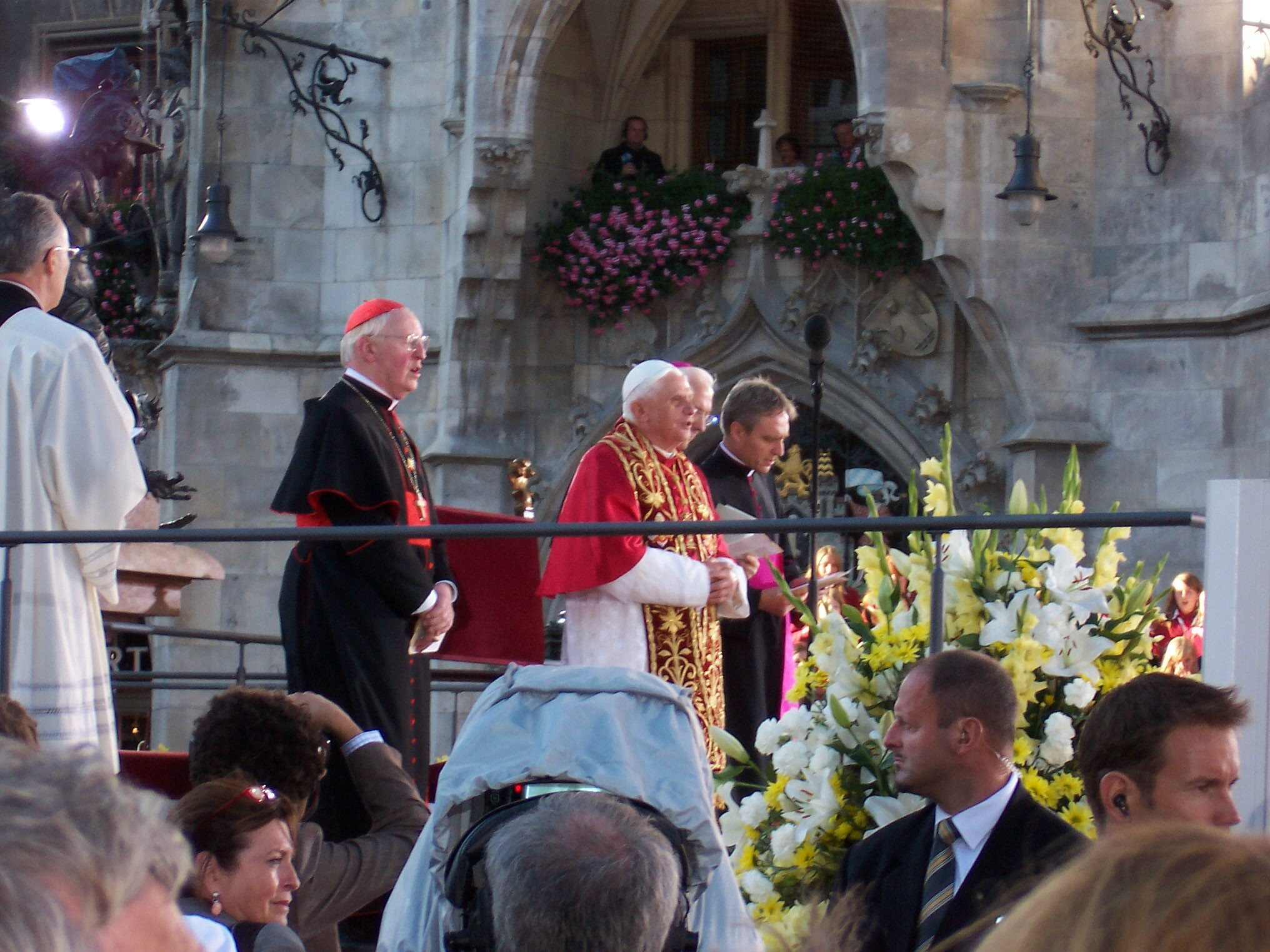 Pope Benedict XVI in Munich, Singing of the hymn of Bavaria at the Marian column